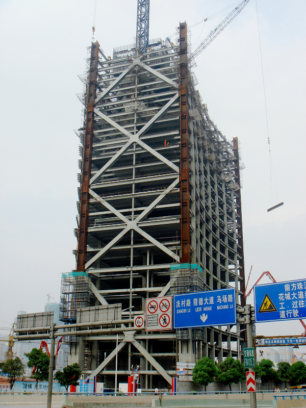 Construction photo of the Pearl River Tower by SOM architects